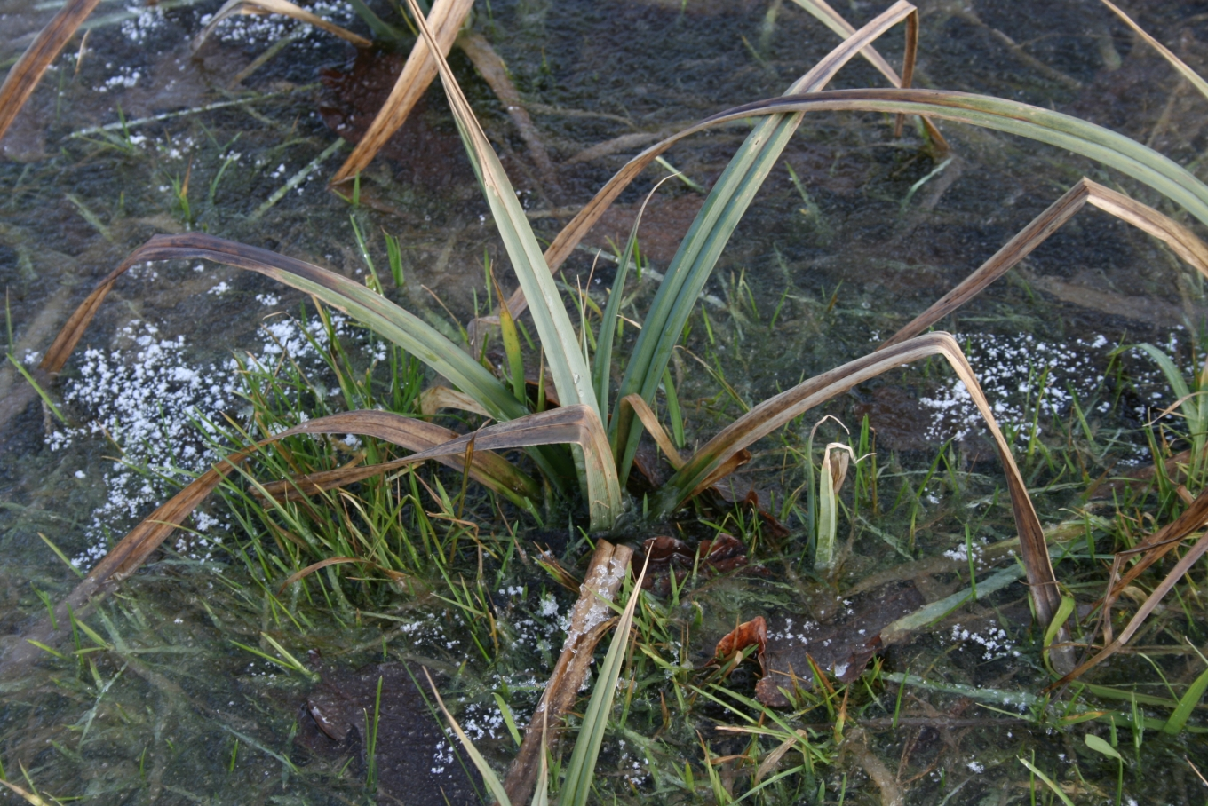 Carex flacca